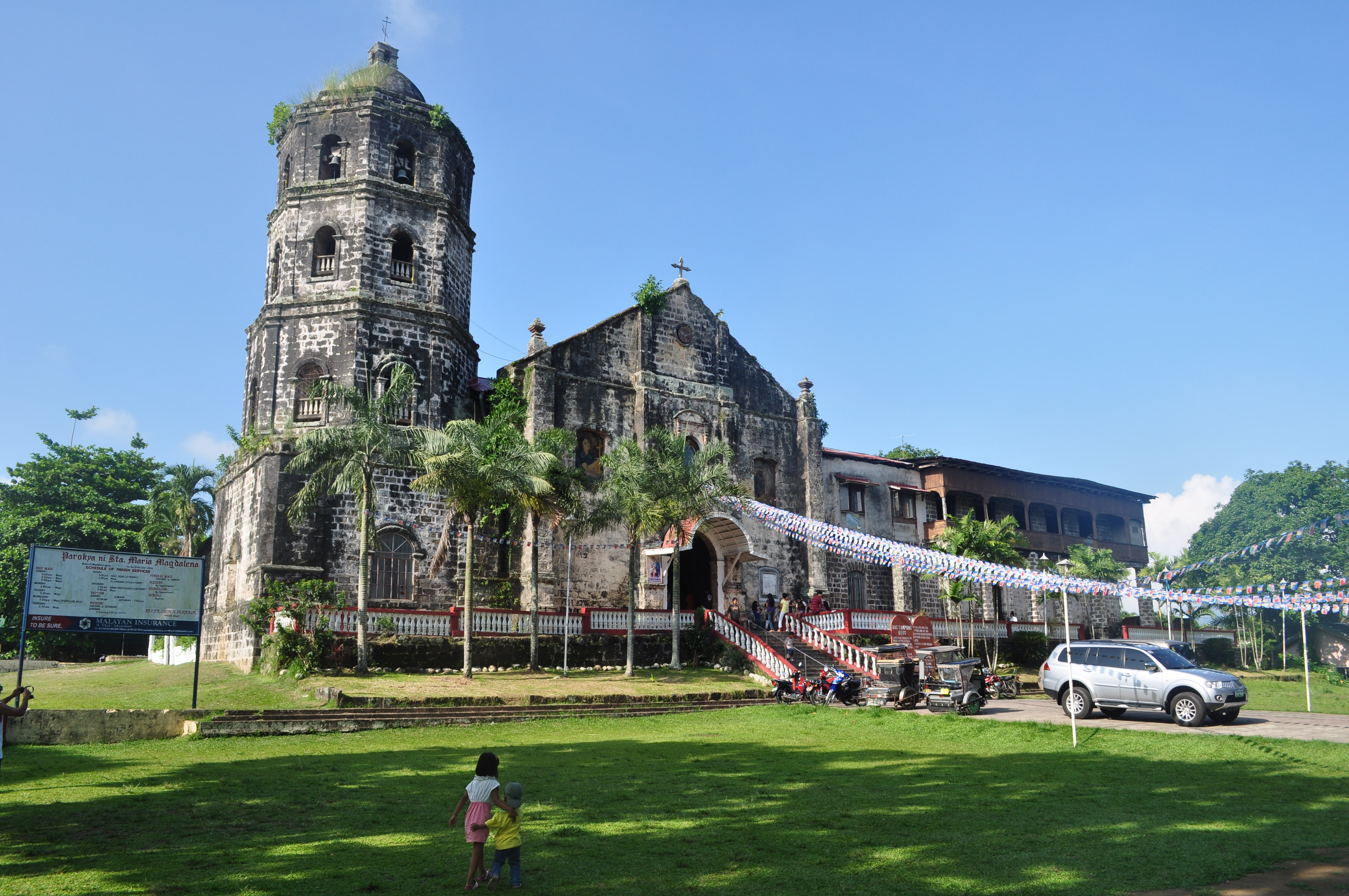 Magdalena is the home of St. Mary Magdalene Church. This church was constructed in 1851-1871, and made of stones and bricks with a sandstone facade. The church is located at the town center or plaza, just across the municipal town hall of Magdalena. In February 1898, after being wounded in a battle with the Spaniards at the Maimpis River, Philippine revolutionary hero Emilio Jacinto sought refuge in this church. His bloodstains were found on the floor of the church. (Wikipedia)